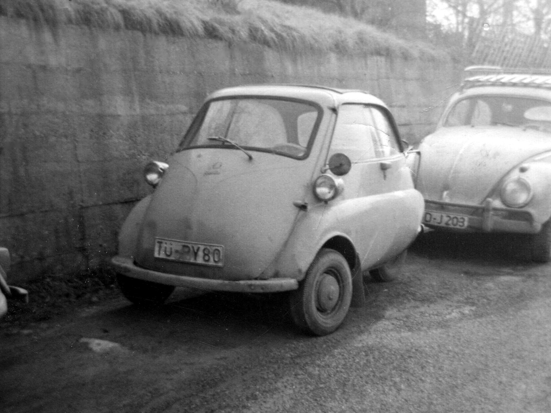 BMW Isetta in daily use